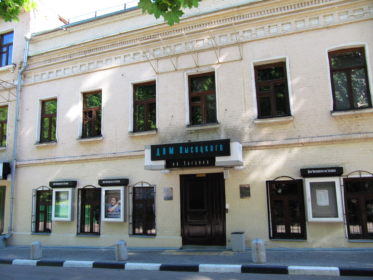 State Center-Museum of Vladimir Vysotsky. Moscow, Nizhny Tagansky impasse, 3